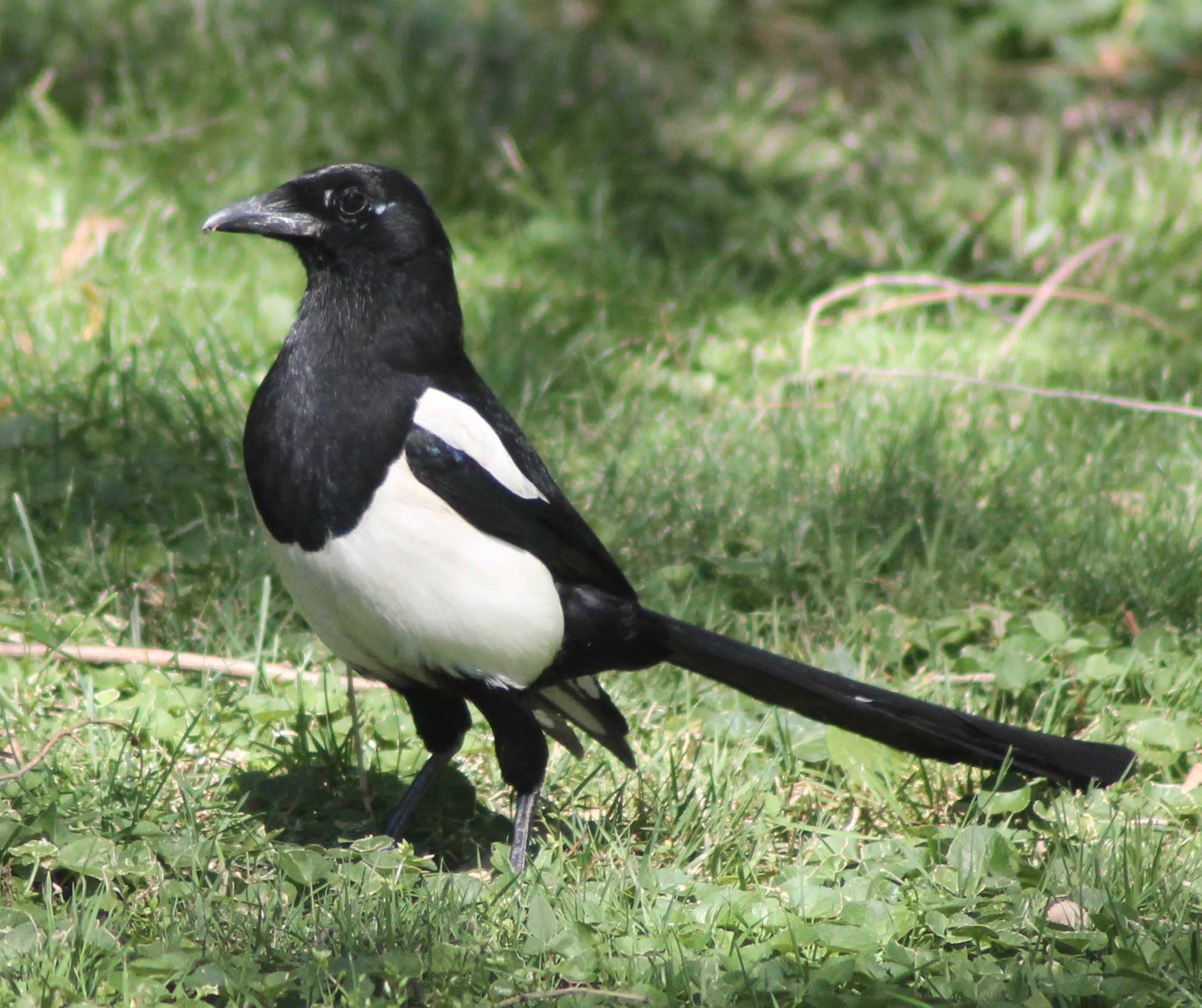 A European magpie (Pica pica) in Madrid (Spain).